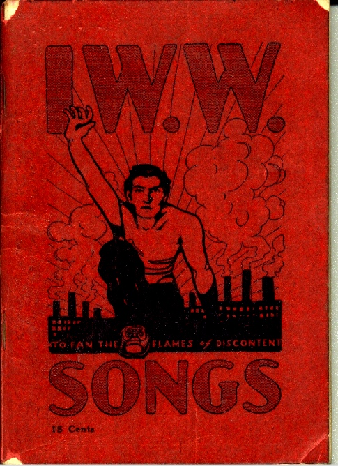 IWW Little Red Songbook, 1932 edition